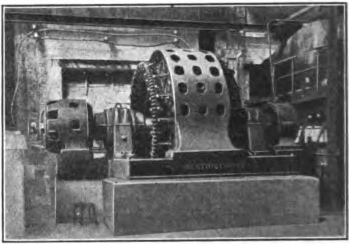 A picture of a synchronous condenser installed at Radnor substation.